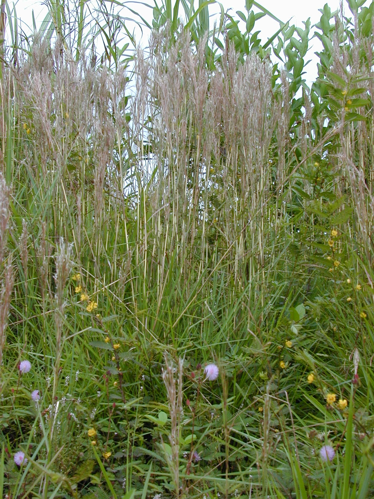 Schizachyrium condensatum (habit). Location: Hawaii, Hilo